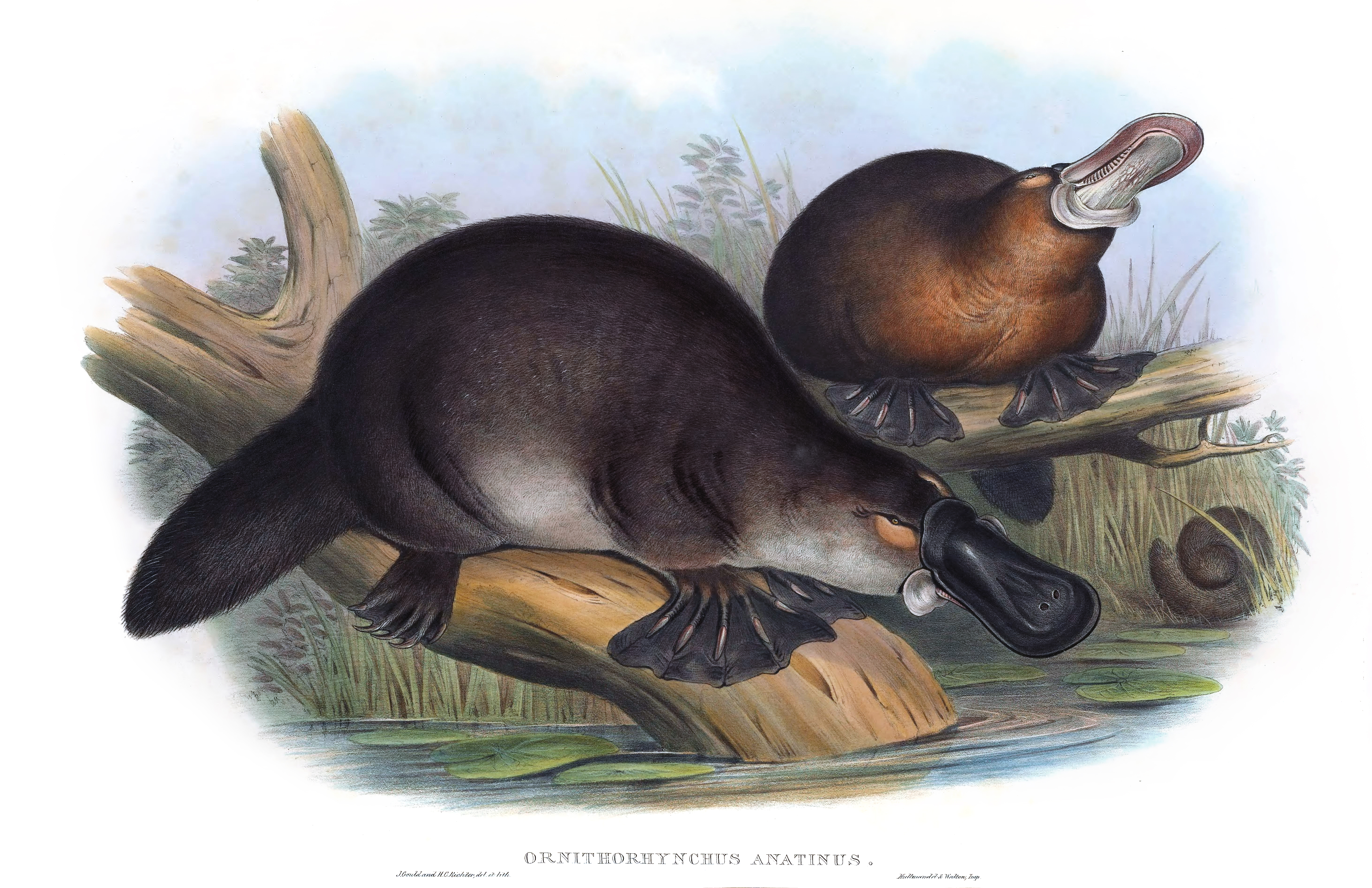 John Gould print image of Ornithorhynchus anatinus (platypus)